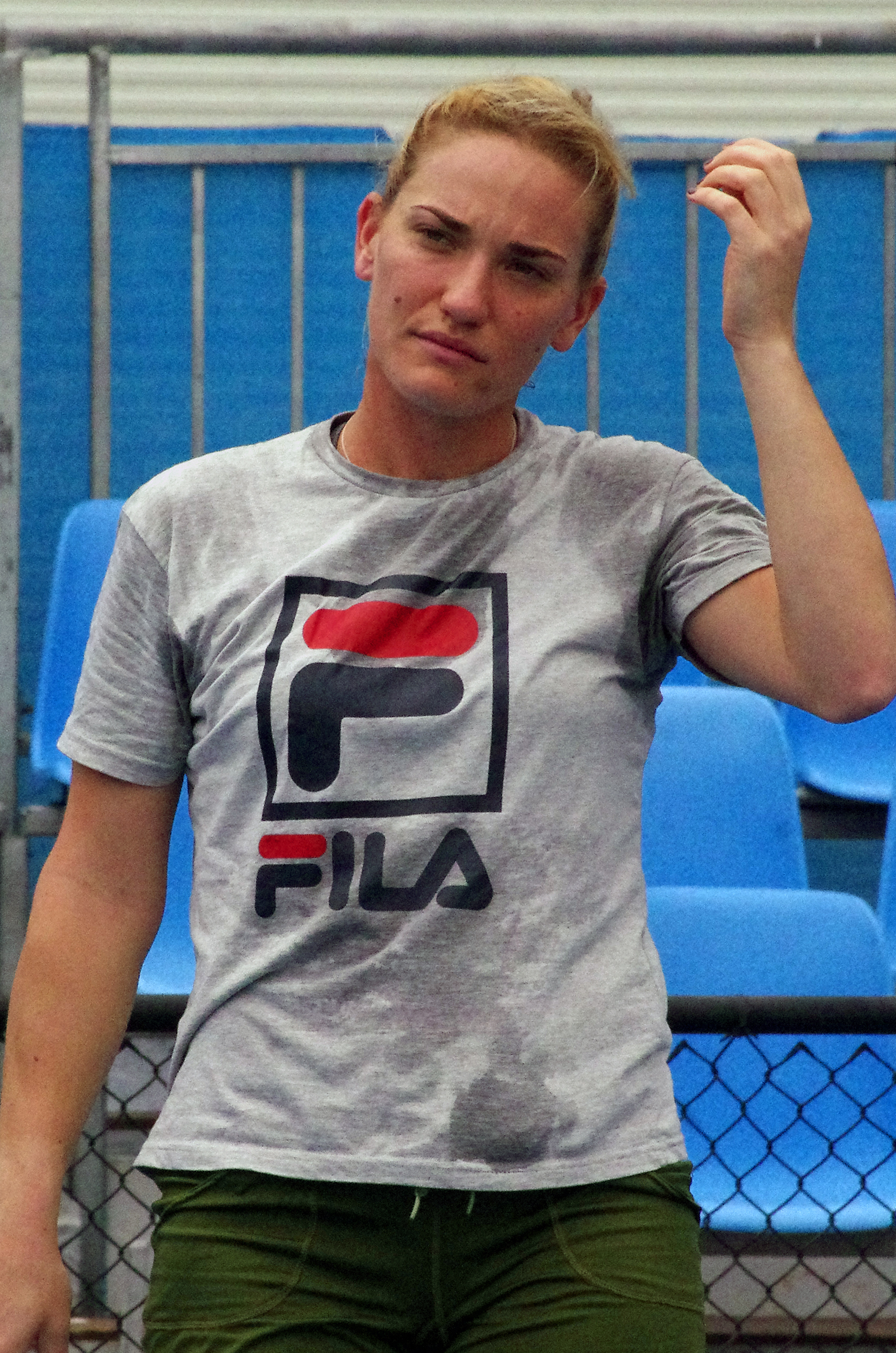 TIMEA BABOS